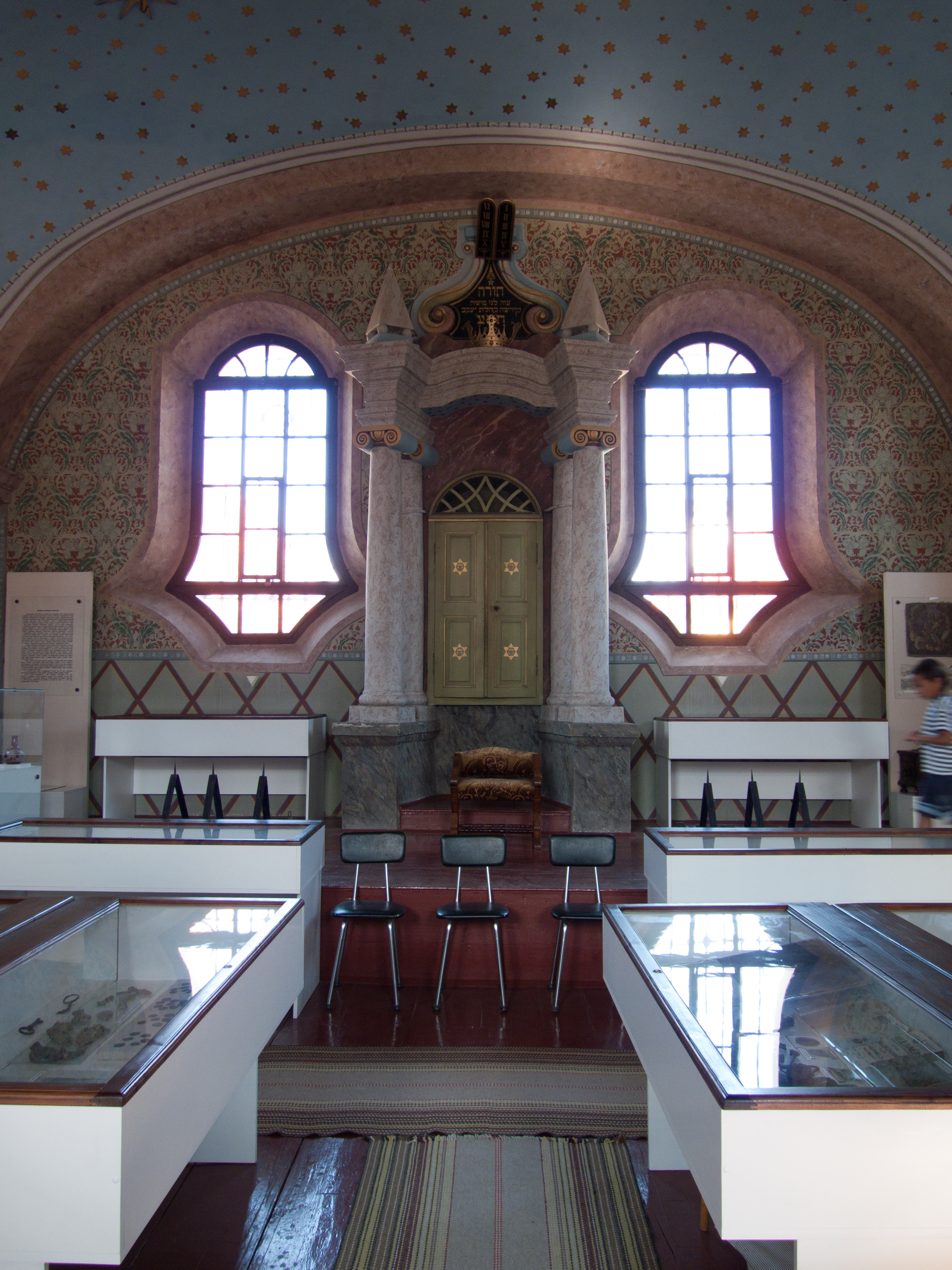 Torah ark in the former synagogue in the village of Kasejovice, Plzeň district, Czech Republic